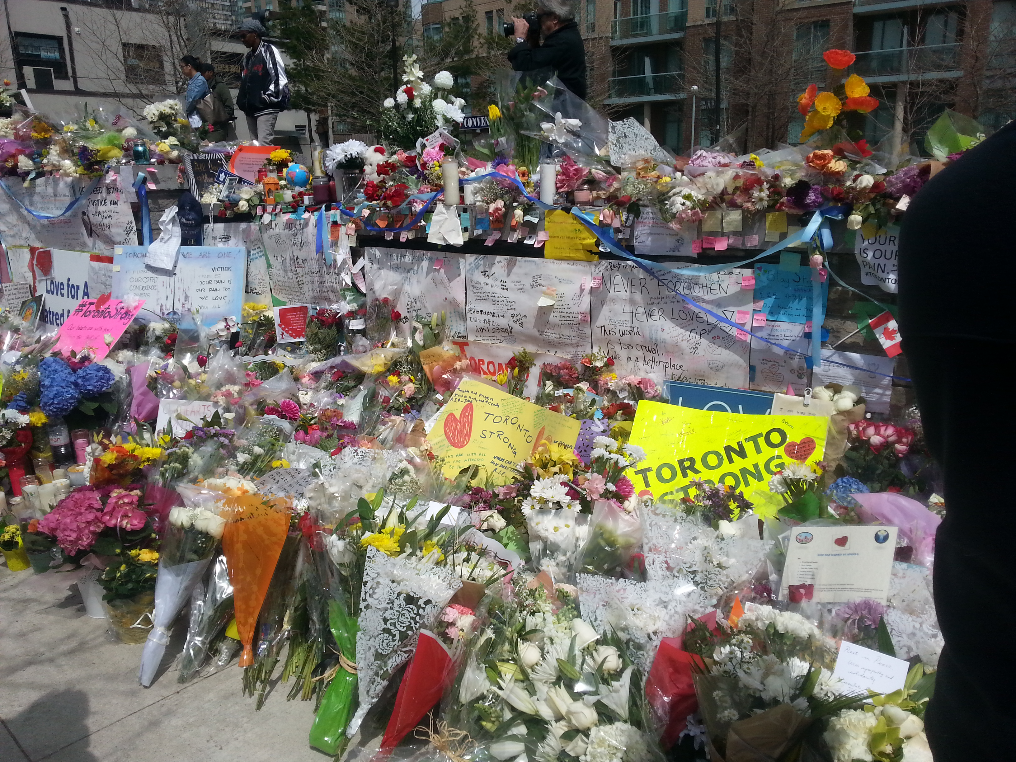 Torontostrong memorial in Olive Square, North York, April 27, 2018.